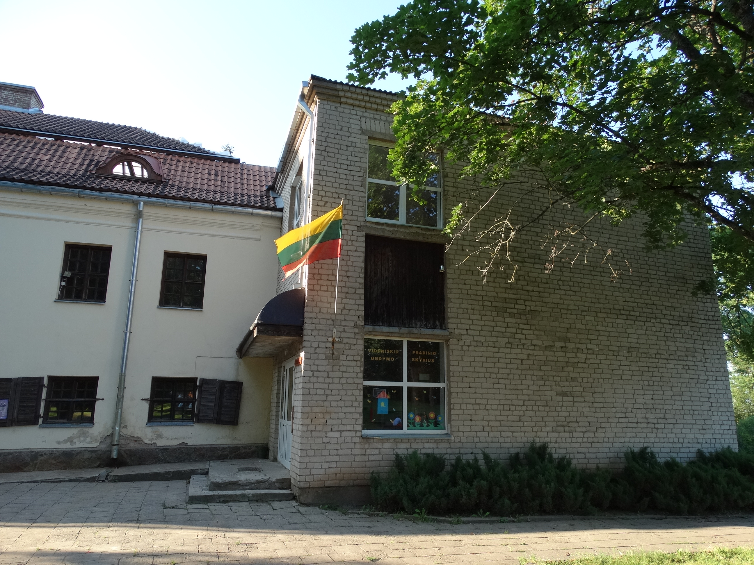 Videniškiai school, Molėtai district, Lithuania